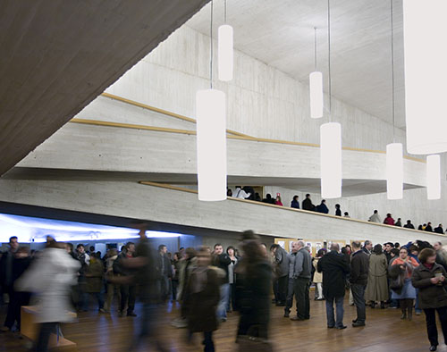 Versatile Chamber of Buero Vallejo Theatre of Guadalajara, Spain.